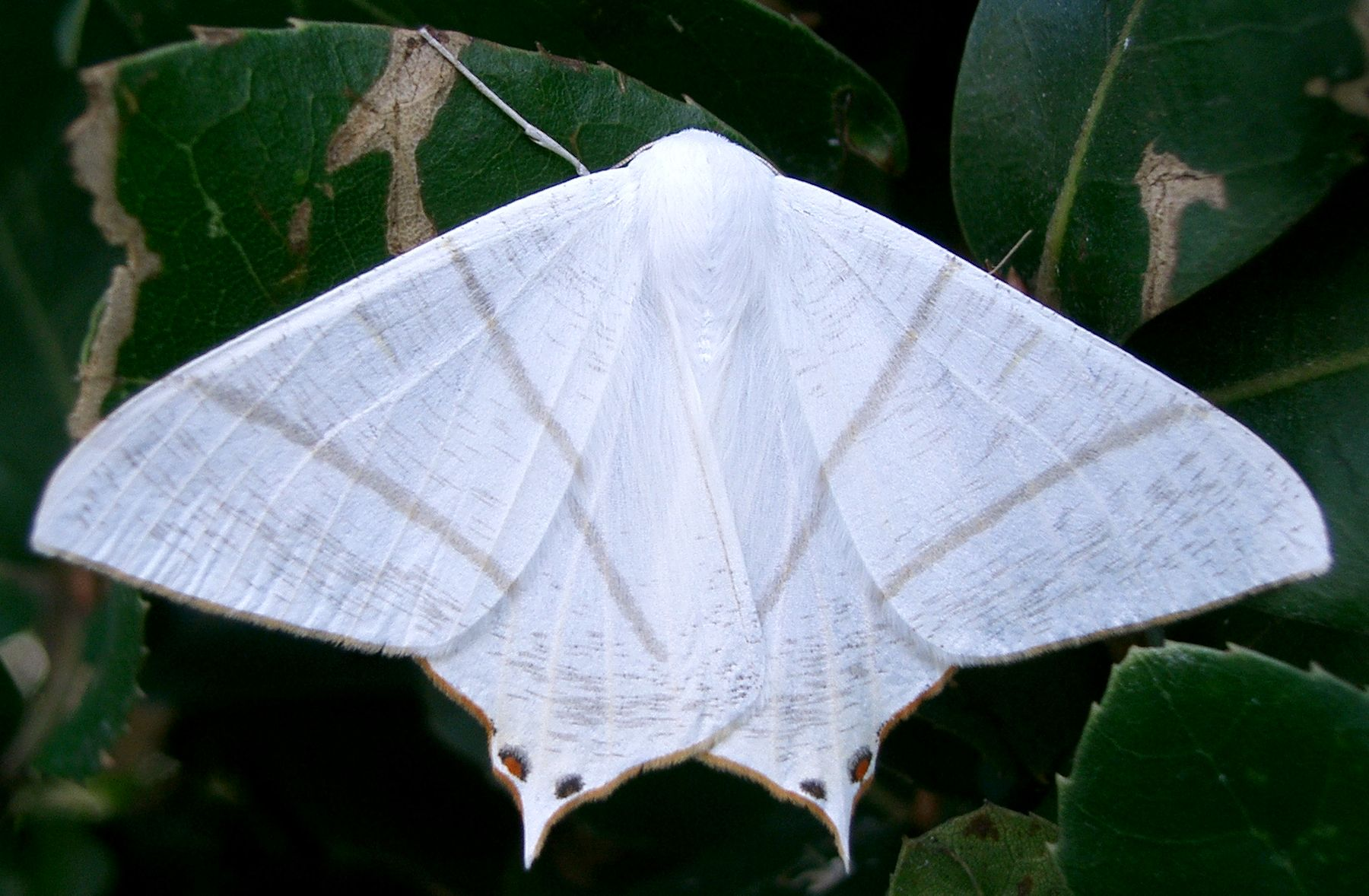 Ourapteryx sp.